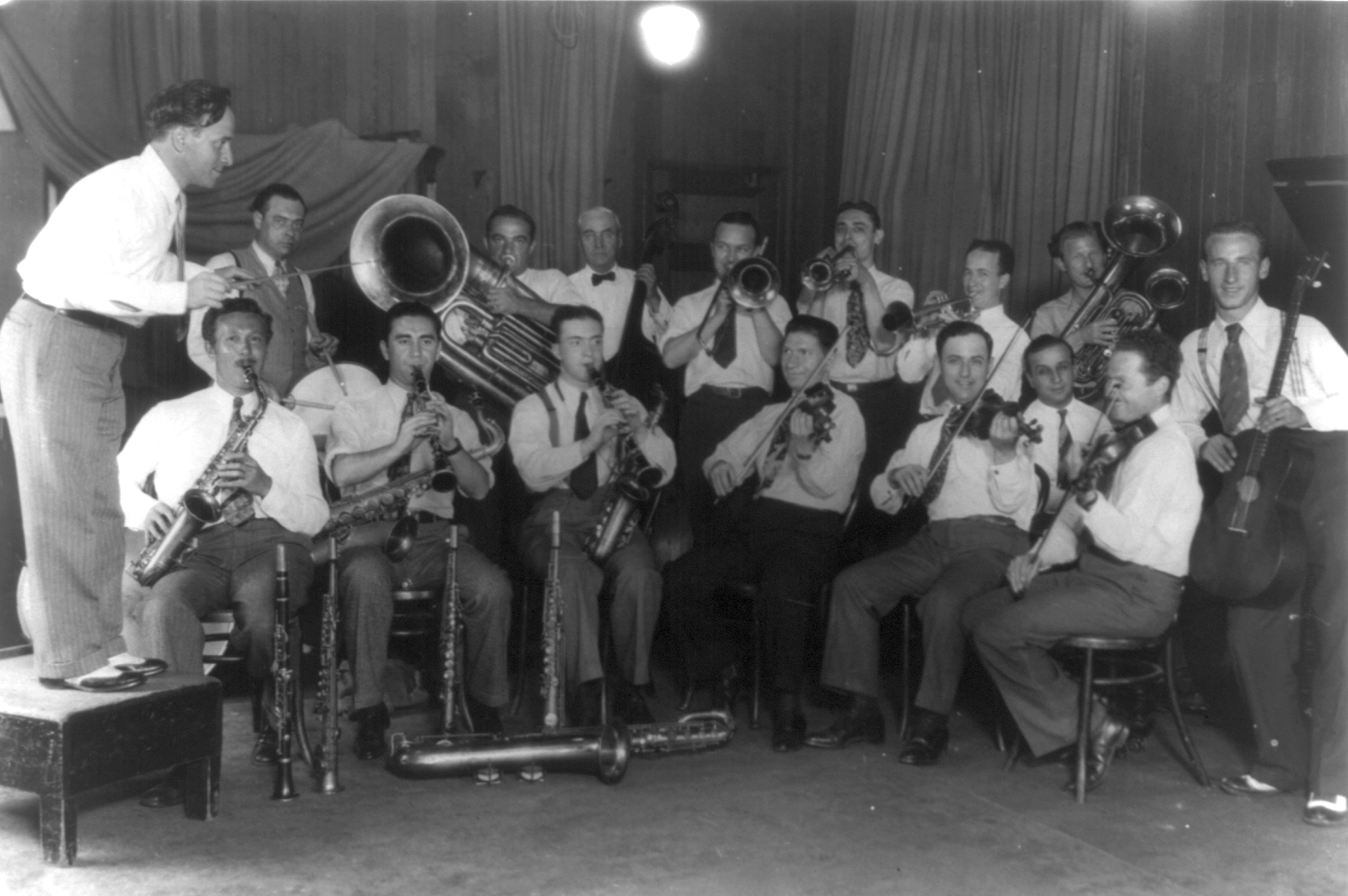 Victor recording director Nat Shilkret (1889-1982; extreme left) conducting a radio or studio group of musicians in the 1920s. Back row (left to right): Joe Green (drums), three unknown, Mike Mosiello (trumpet), Harry Shilkret (trumpet), unknown. Front row (left to right): three unknown, Lou Raderman (violin), Pete Eisenberg (violin), Jack Shilkret (piano), Benny Posner (violin) and unknown. Source for the majority of the identified musicians: Nat Shilkrets's autobiography Sixty years in the music business (Lanham, Toronto & Oxford 2005)